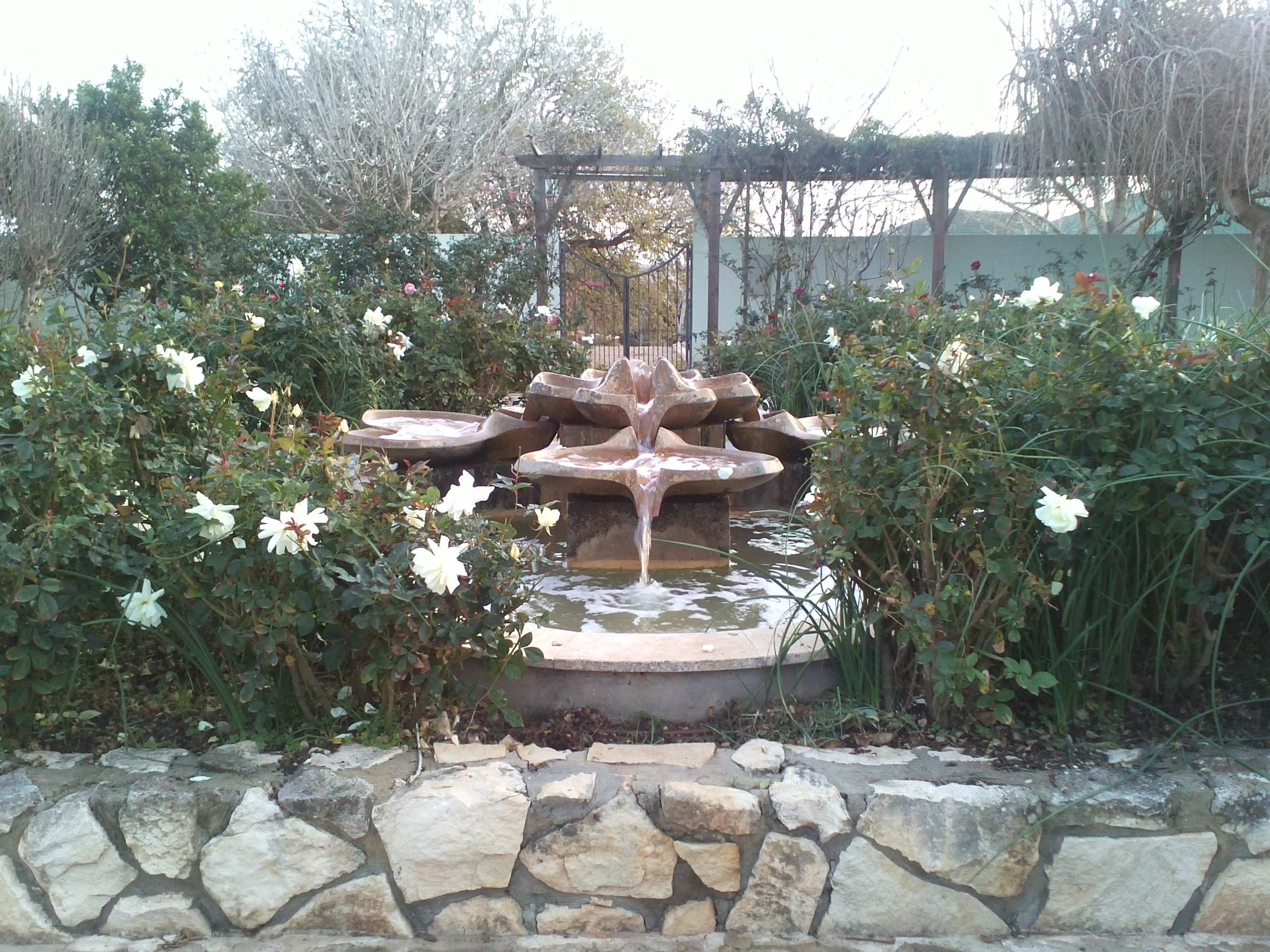 A garden in Harduf